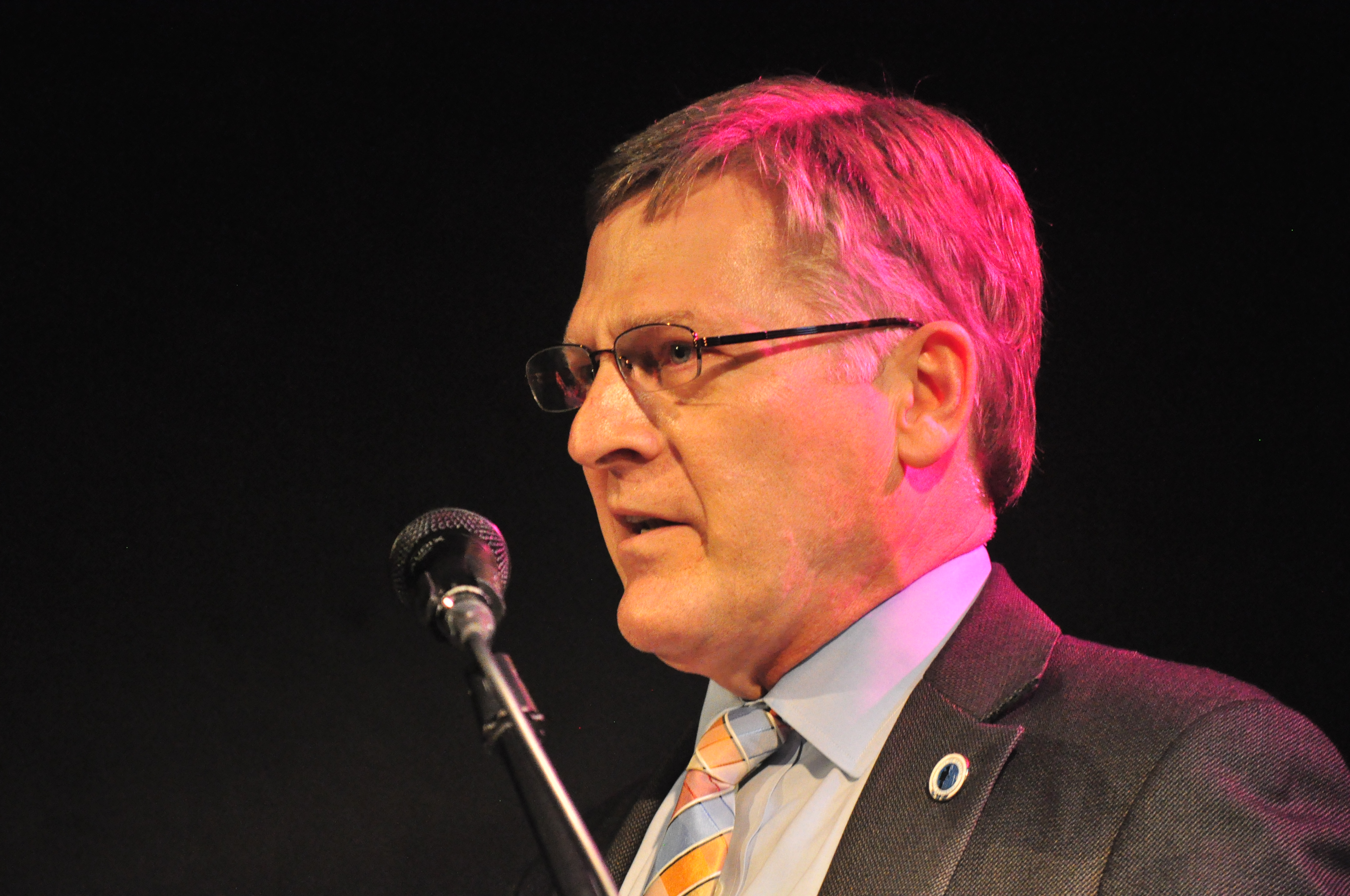 Seattle city attorney Pete Holmes "roasting" departing Stranger editor and reporter Dominic Holden (not shown) at the Re-Bar, Seattle, Washington, November 1, 2014. Roasters included prominent city and county officials, past and present Stranger staff, and people from the Seattle theater community.